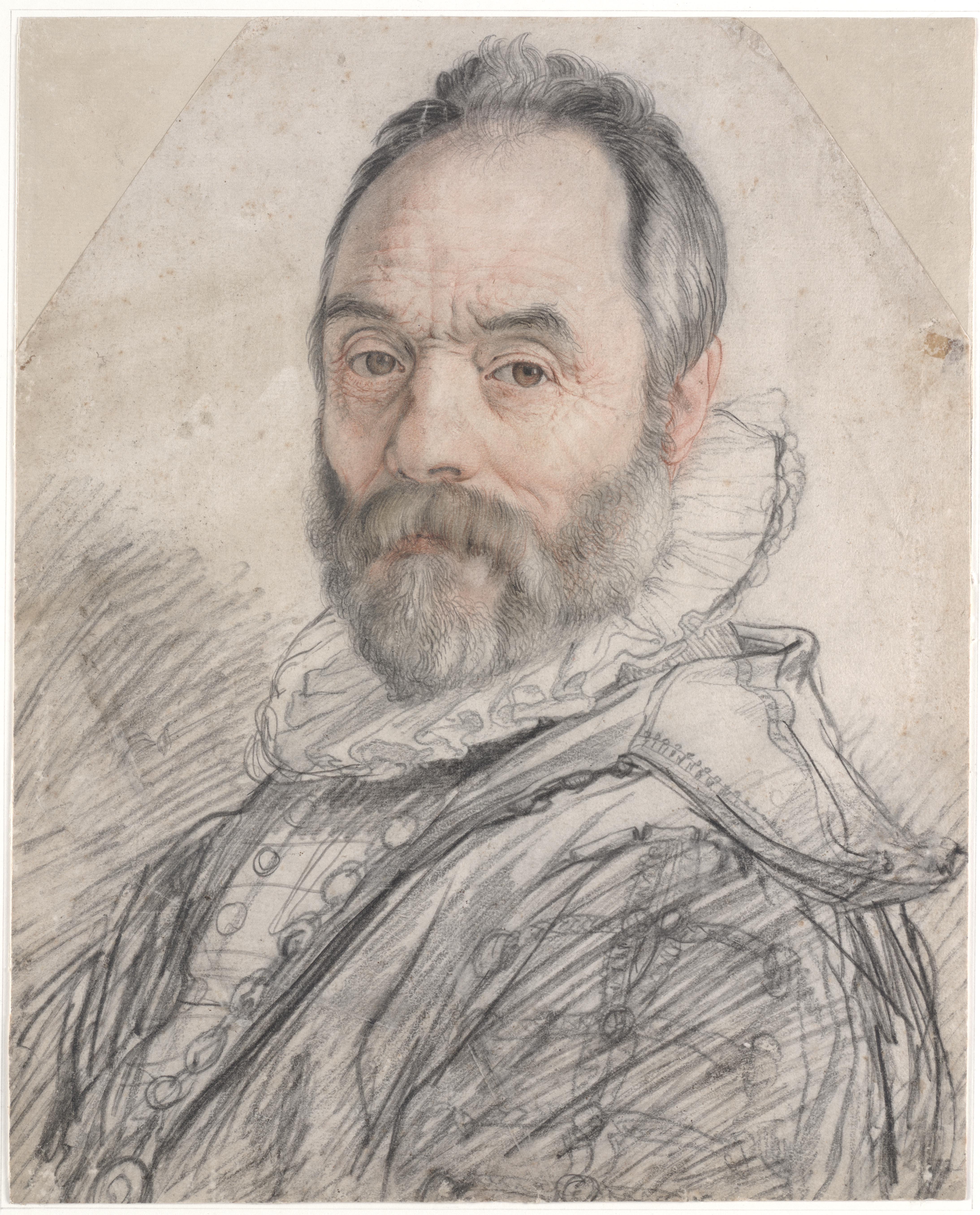 Depicted person: Giambologna